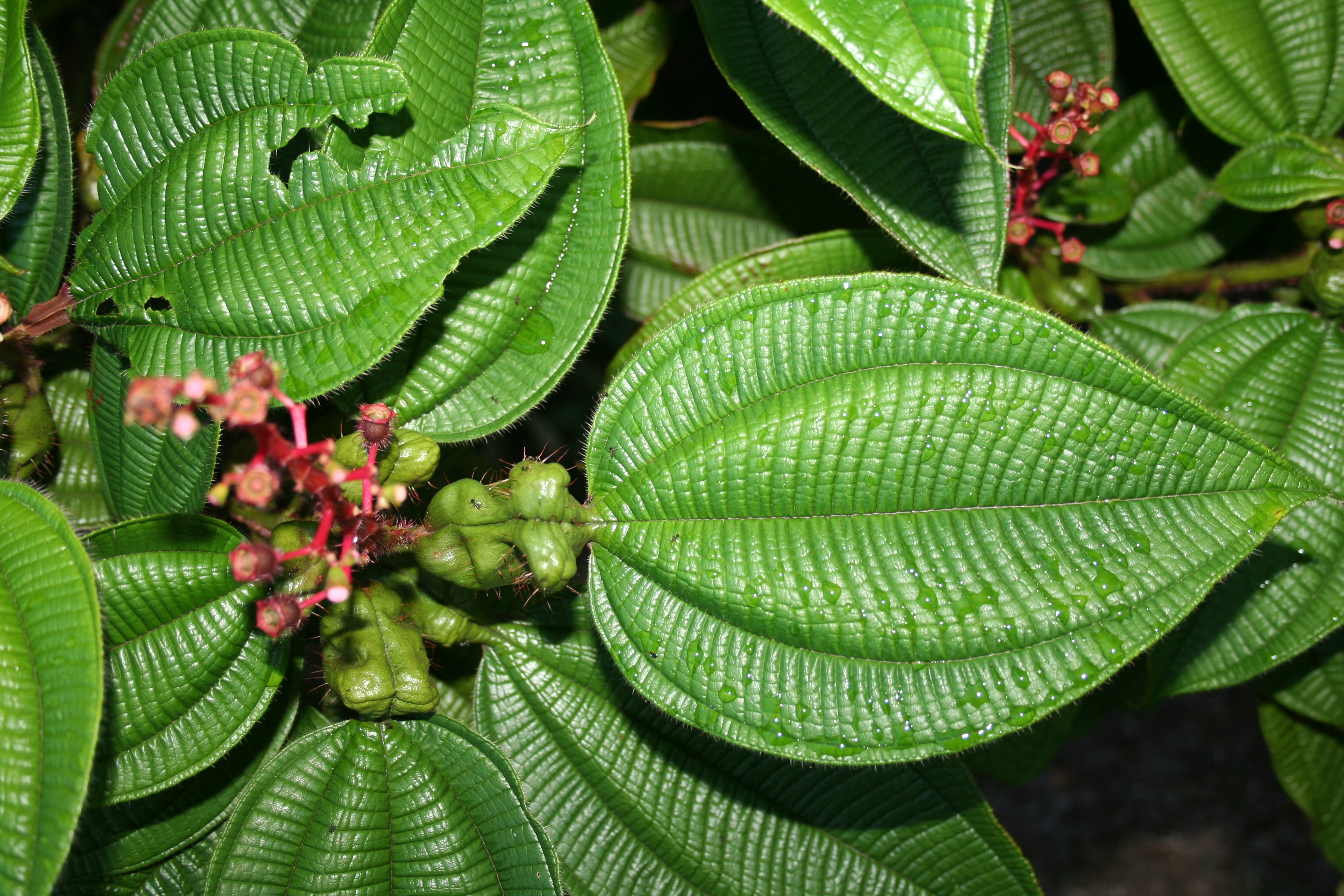 Leaves and immature fruits of Tococa sp. (perhaps tococa guianensis). The contorted leafy structures at the base of the leaves are domatia, spectialized structures for ant housing. Ants protect the leaves from herbivory by other insects and provide mineral food to the plant.